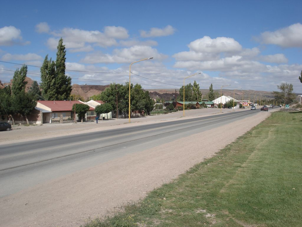 Piedra del Aguila city and 237 road in Neuquén Province, Argentina.